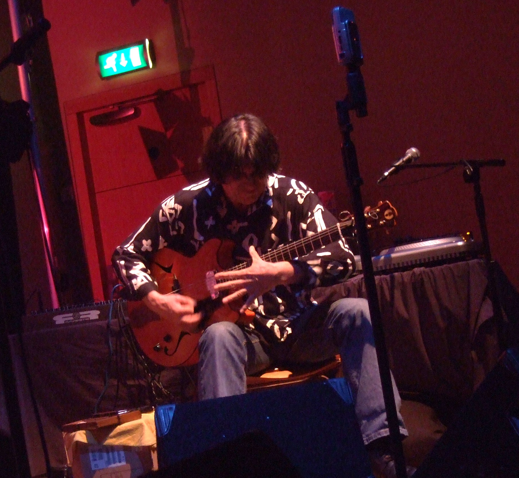 Raymond Boni